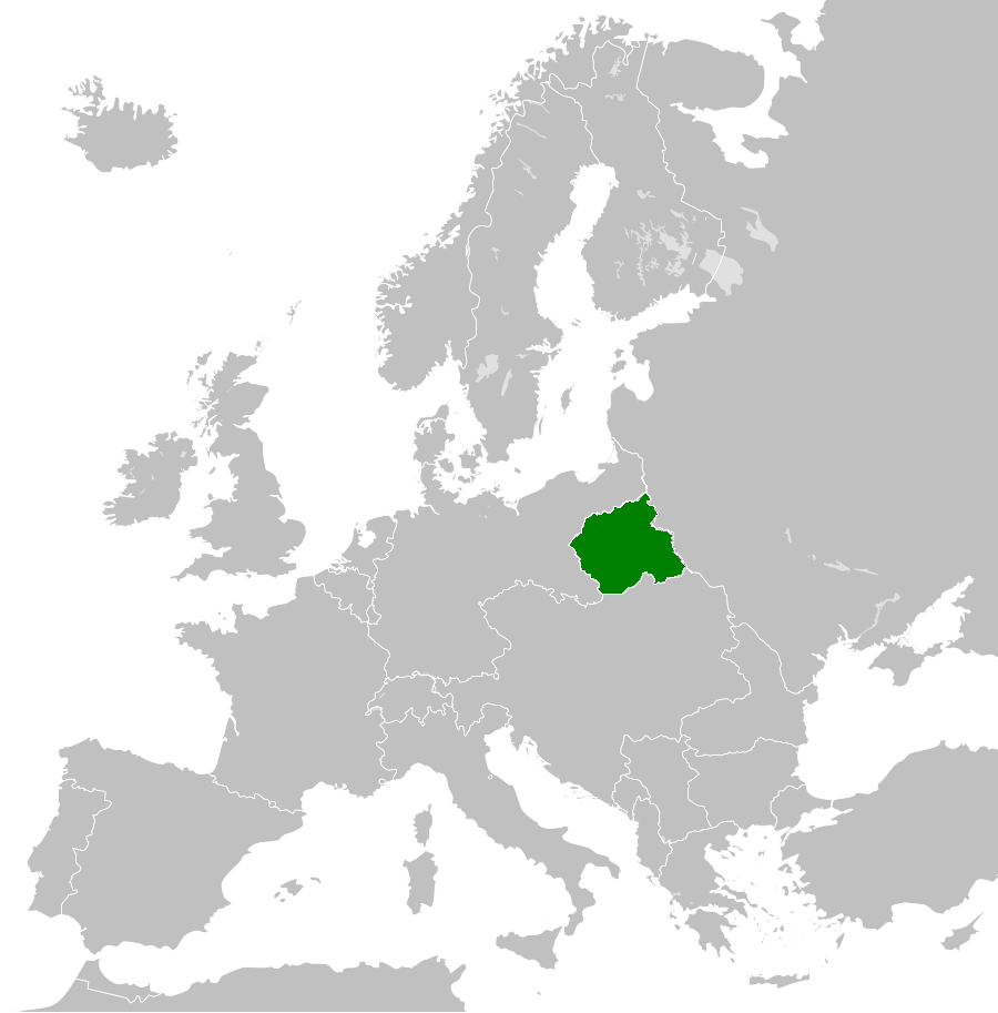 Localisation of Kingdom of Poland in 1918.